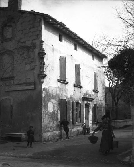 Frederic Mistral's house where he wrote Mirèlha